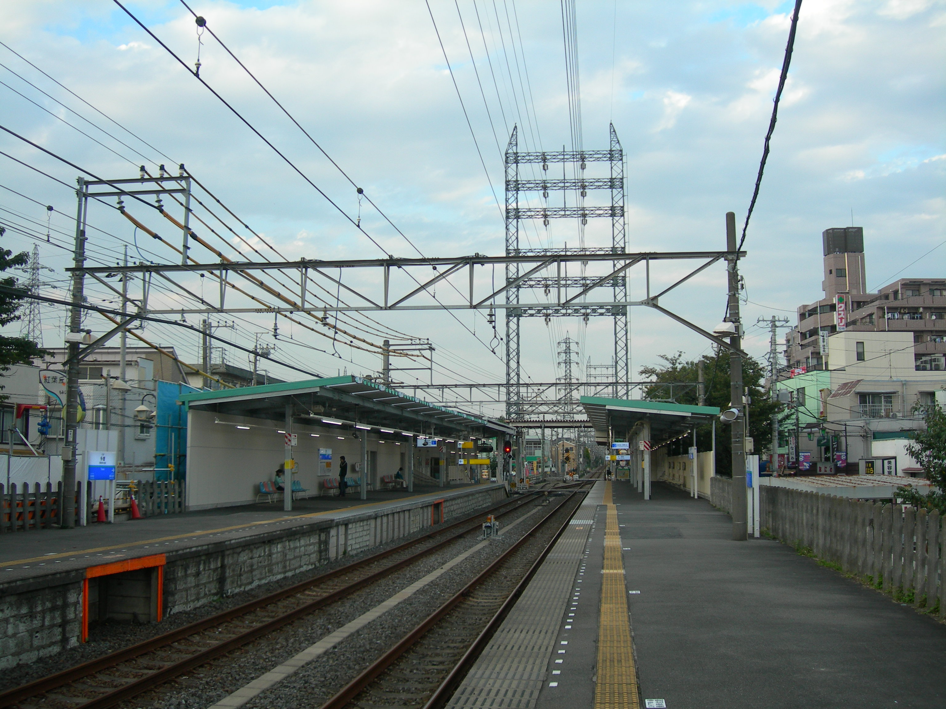 Tama Station on the Seibu Tamagawa Line